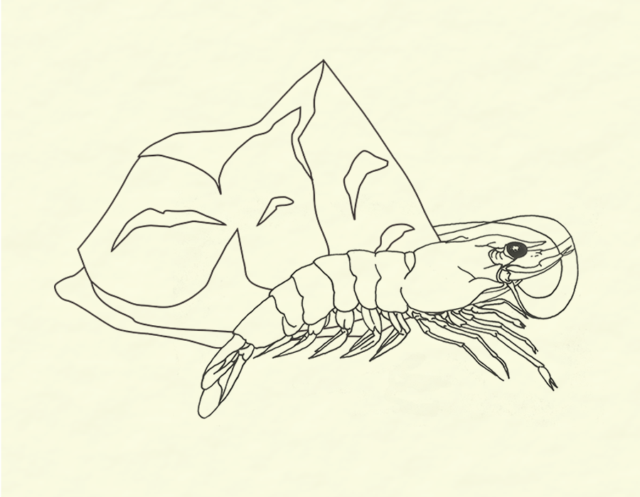 Artist's concept of Indonesian proverb "There is a shrimp behind the rock."